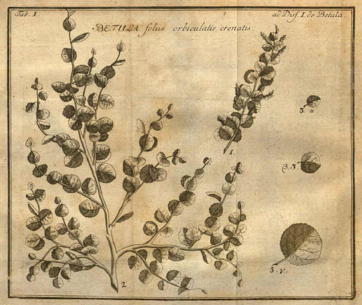 Betula nana. Illustration from Caroli Linnaei ... Amoenitates academicae, seu, Dissertationes variae physicae, medicae, botanicae : antehac seorsim editae : nunc collectae et auctae : cum tabulis aeneis. Holmiae ; et Lipsiae : Apud Godofredum Kiesewetter, 1749-1769. Vol. I, tabl. I.